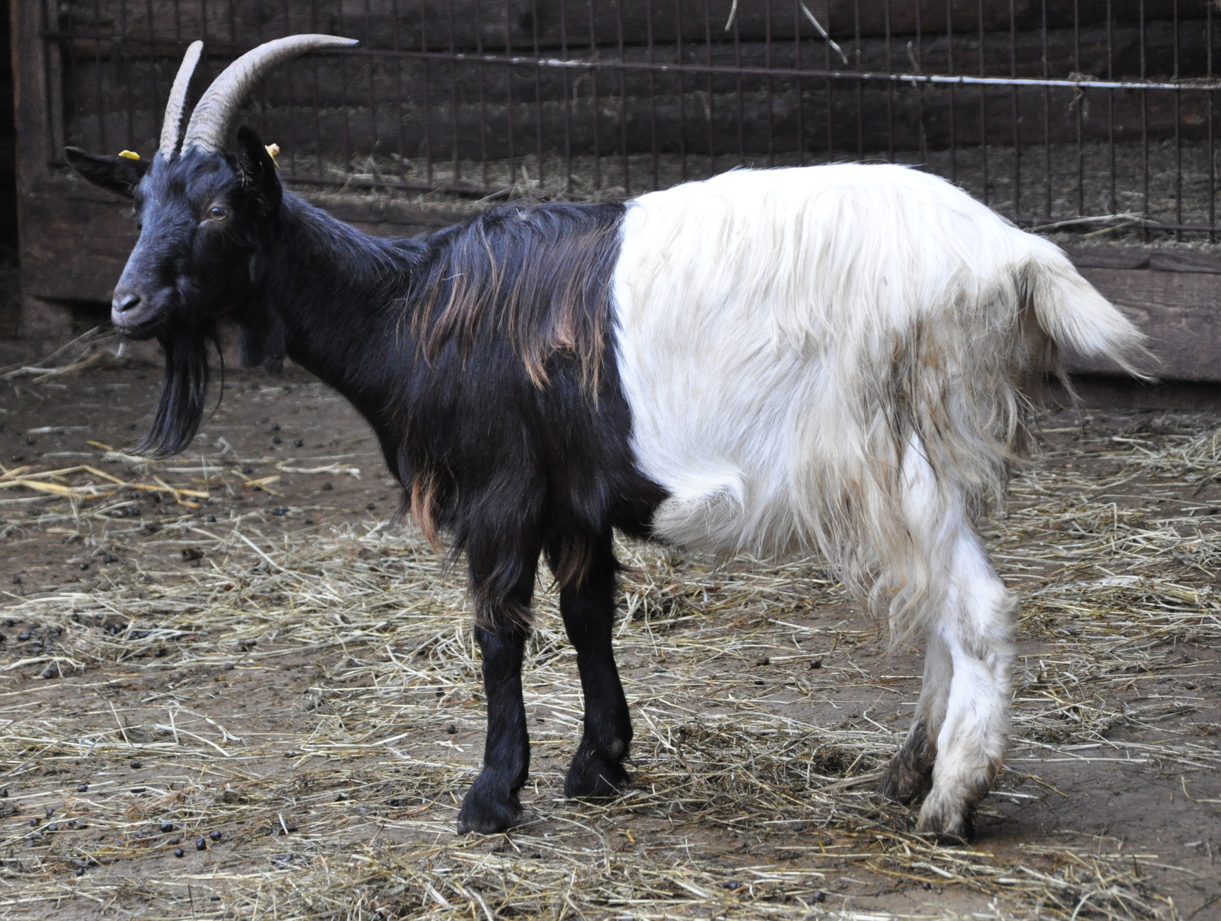 Valais Blackneck (Capra aegagrus hircus) in the Lüneburg Heath wildlife park, Germany.